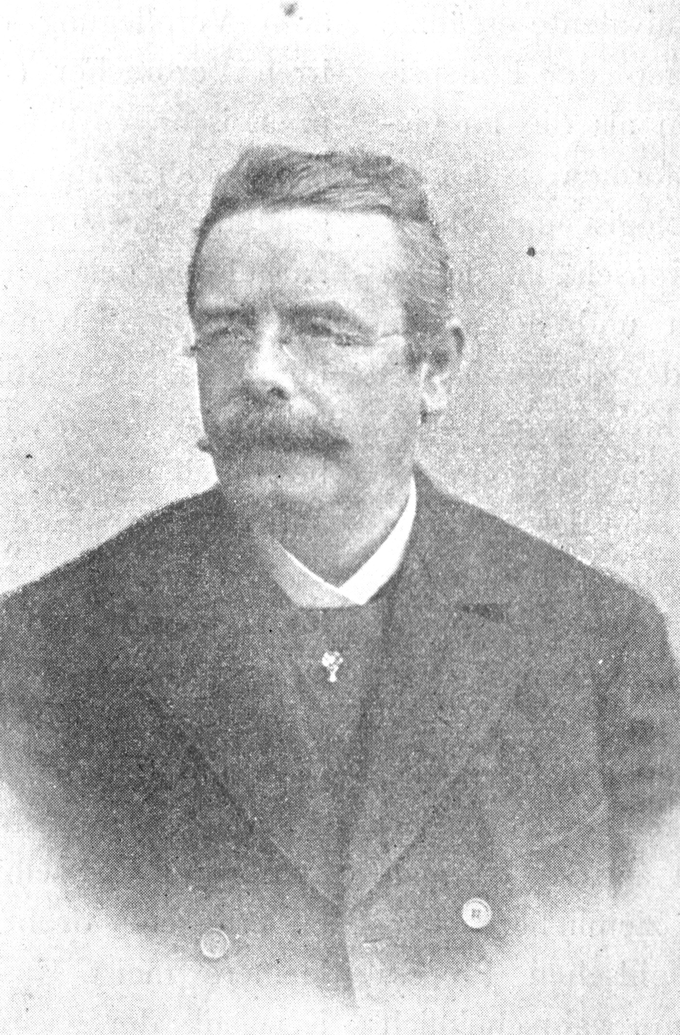 Wilhelm Sommer, German psychiatrist